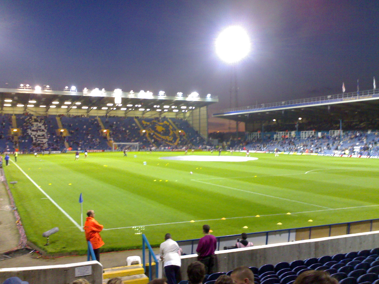 Fratton Park football ground, Portsmouth, as viewed from the Milton End in September 2006